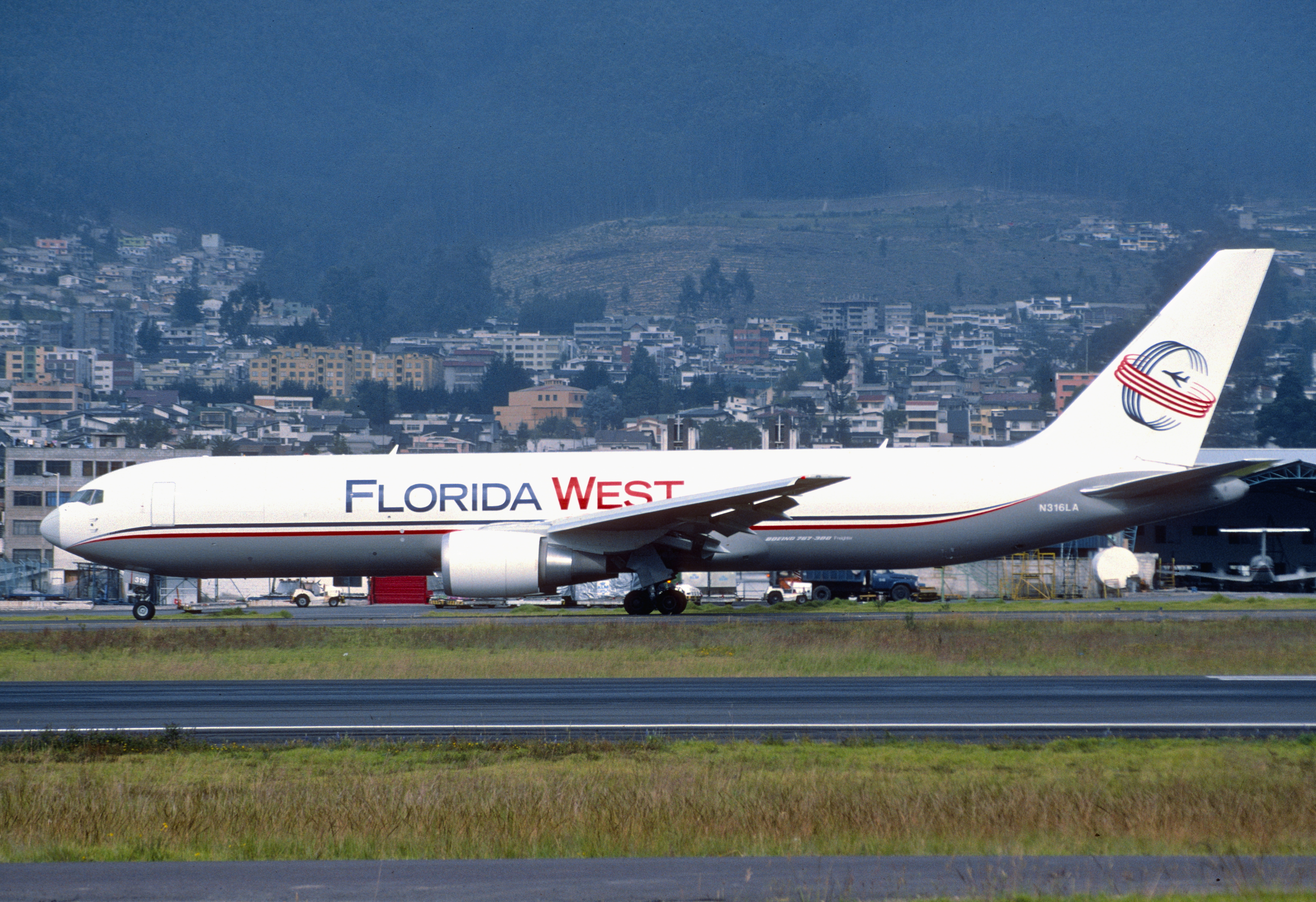 This Boeing 767-316F took its first flight on November 15, 2001 and was delivered to Florida West on November 28, 2001...(c/n 30842/ 860)